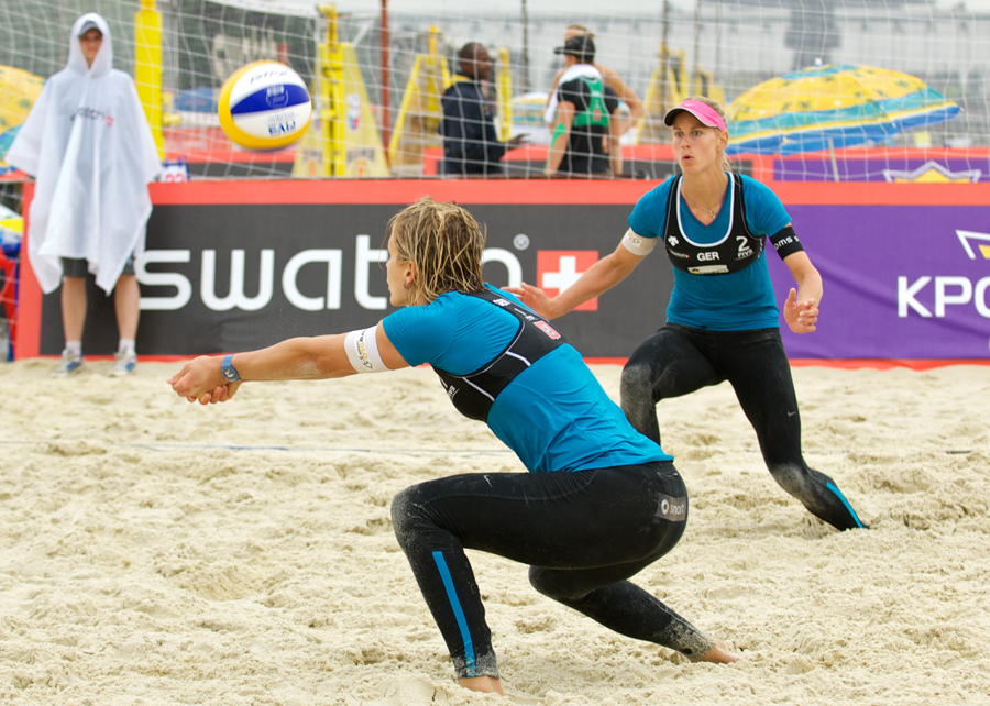 Grand Slam Moscow 2012